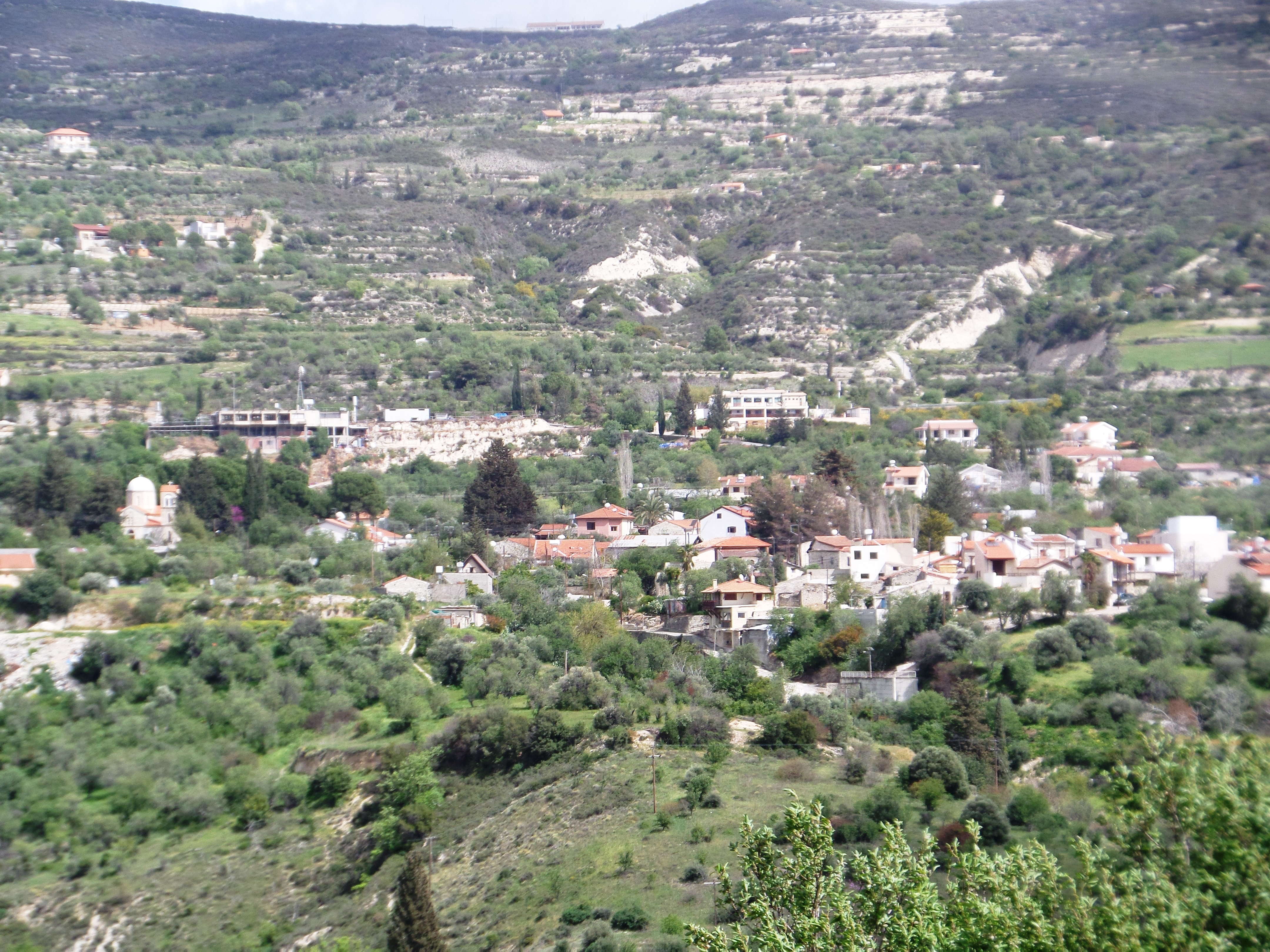 View of Dorós, Cyprus.